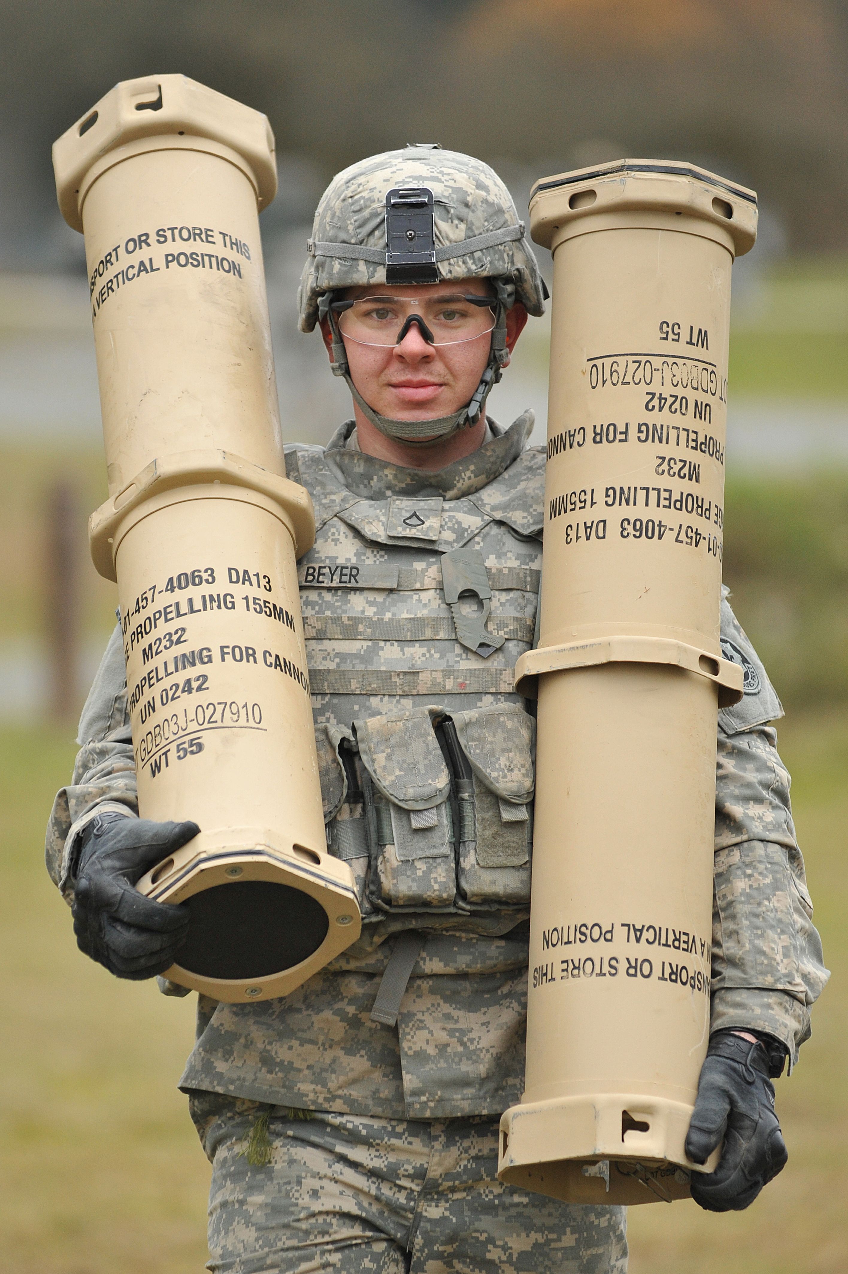 U.S. Army Pfc. Zachary Beyer, assigned to Alpha Battery, Field Artillery Squadron, 2nd Cavalry Regiment, carries powder charges during a direct fire exercise at the 7th Army Joint Multinational Training Command’s Grafenwoehr Training Area, Germany, Nov. 17, 2014. (U.S. Army photo by Visual Information Specialist Gertrud Zach/released)